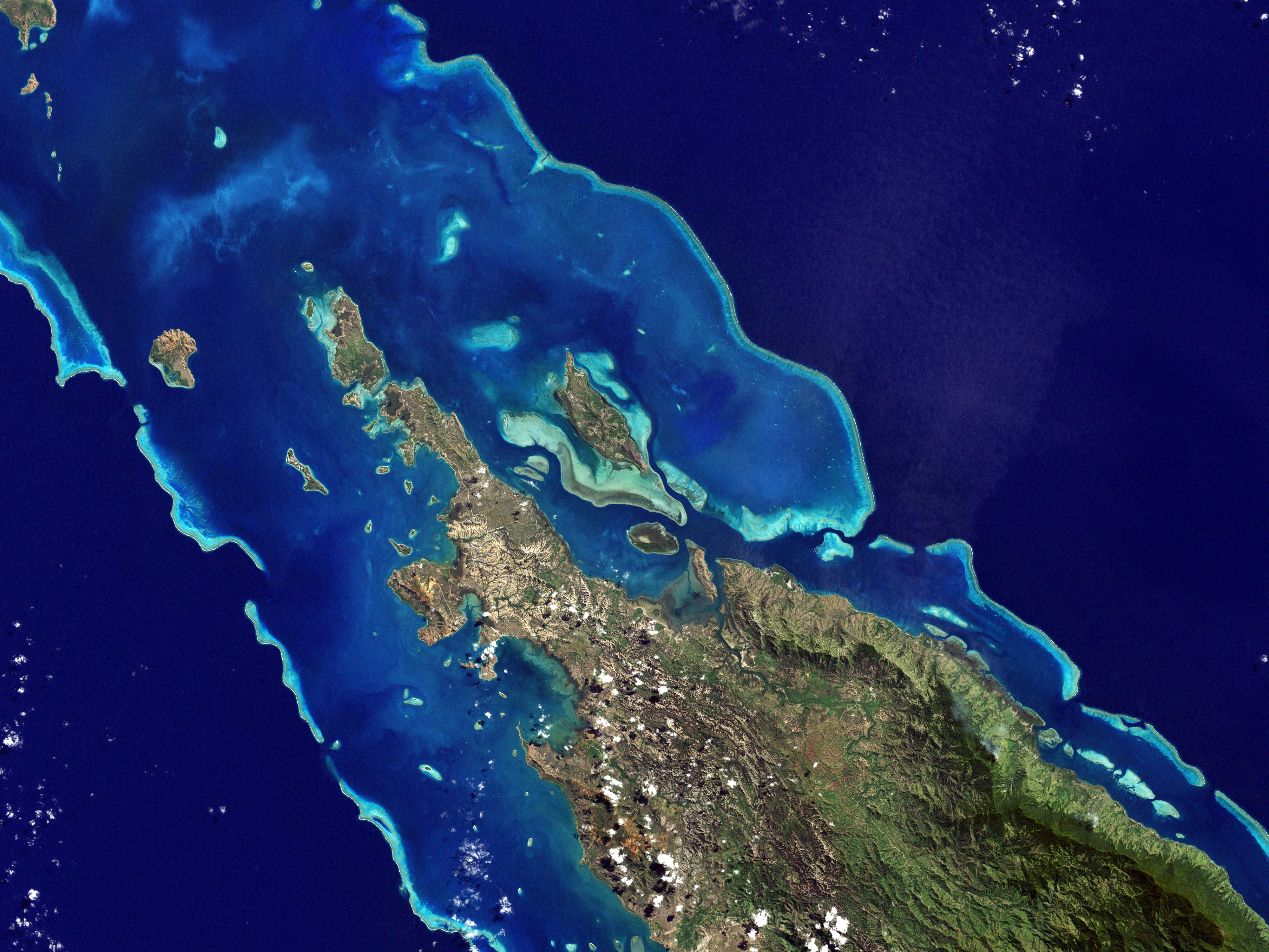 NASA’s Landsat 7 satellite captured this image of Île Balabio, off the northern tip of Grande Terra, New Caledonia’s main island. In this natural-color image, the islands appear in shades of green and brown—mixtures of vegetation and bare ground. The surrounding waters range in color from pale aquamarine to deep blue, and the color differences result from varying depths. Over coral reef ridges and sand bars, the water is shallowest and palest in color.